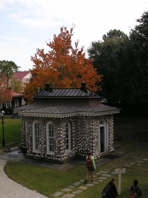 A picture of the historic Shell House in the center of Ashley Hall's Campus.